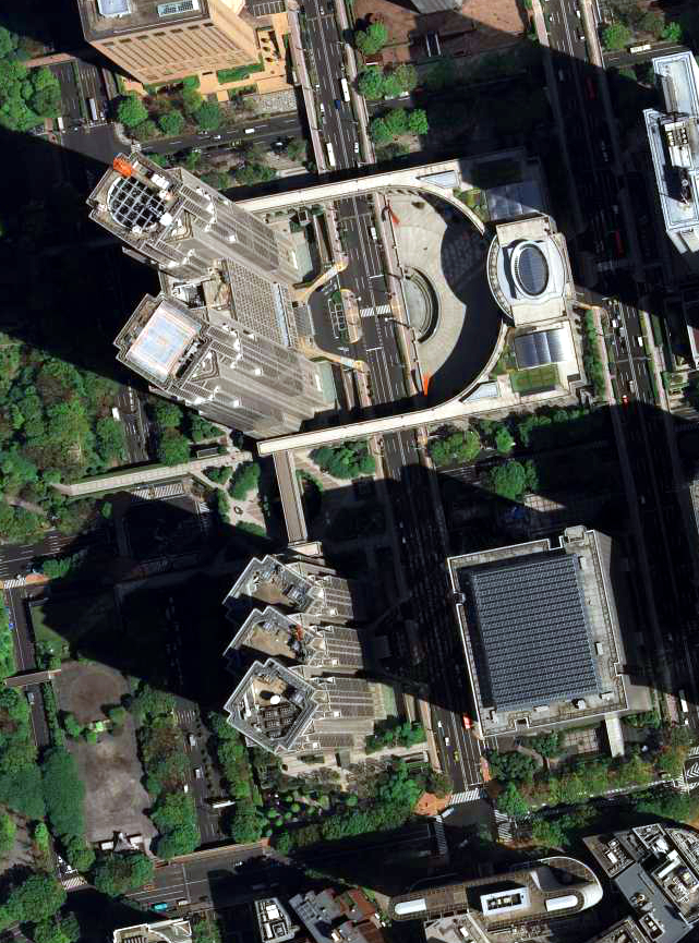 The Geographical Survey Institute took the aerial photograph in Shinjuku Ward, Tōkyō Metropolis on April 27, 2009.